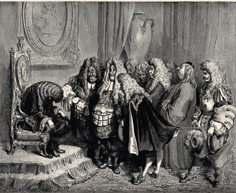 Illustration for Charles Perrault's Peau d'Ane. Gustave Doré's illustrations appear in an 1867 edition entitled Les Contes de Perrault. First of six engravings